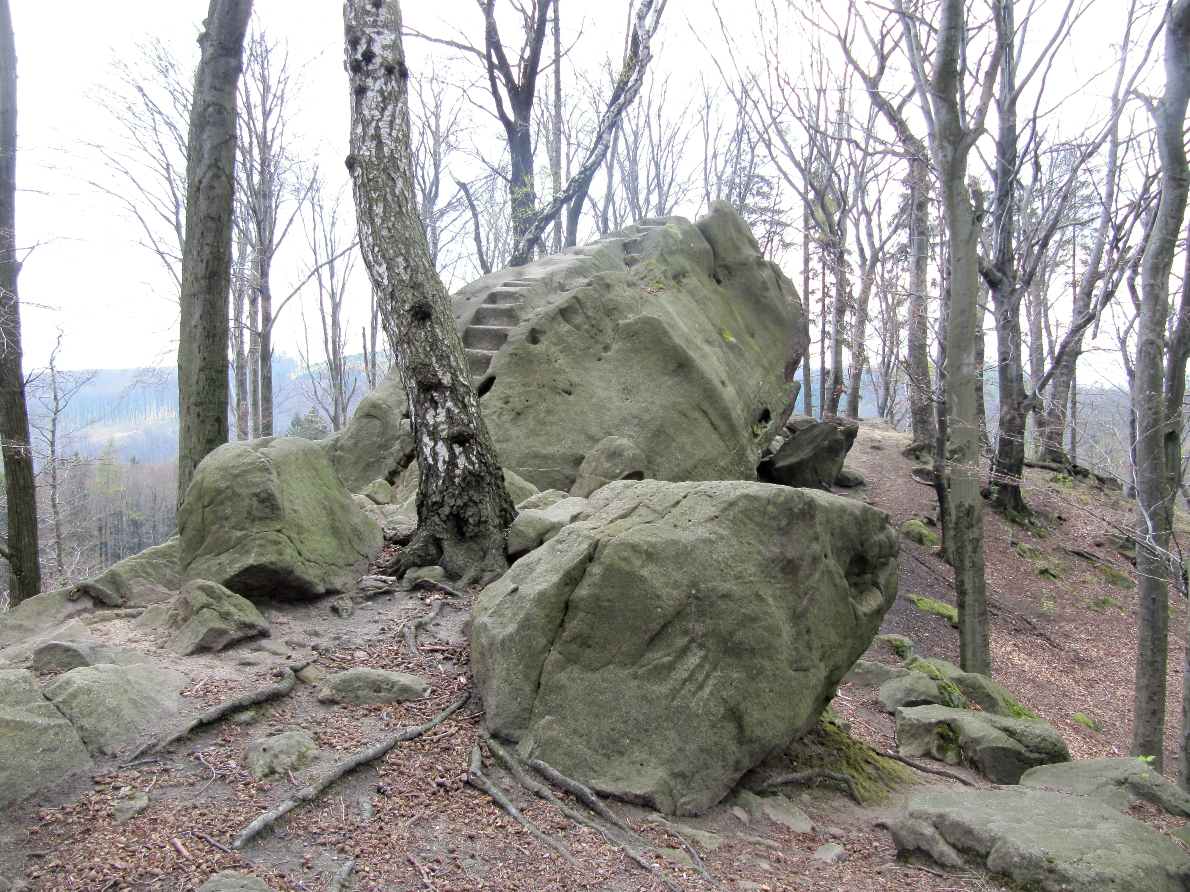 Kostelany, Kroměříž District, Czechia. Komínky natural monument.